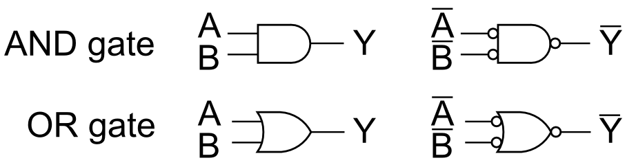 Negative-Positive Logic (AND gate, OR gate)